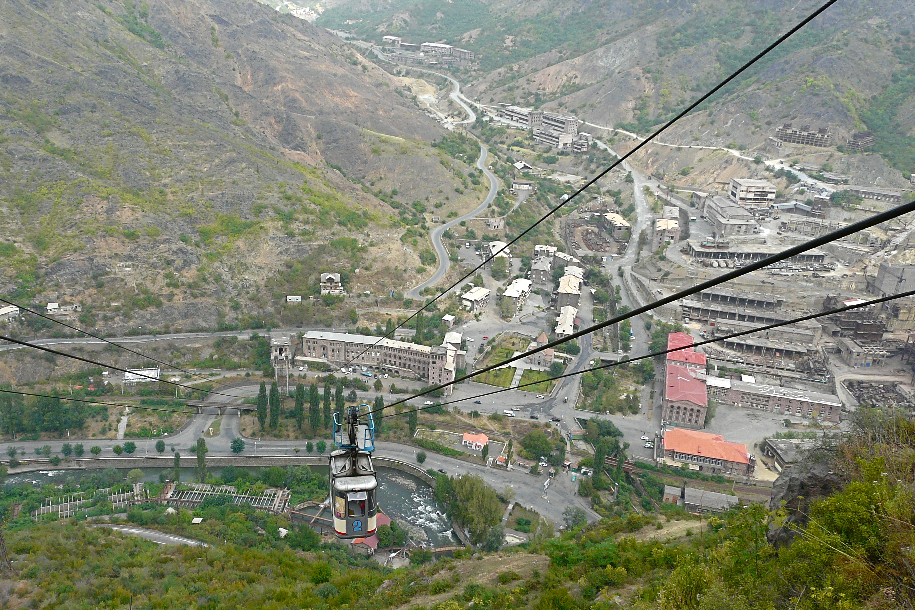 view from the ropeway, Alaverdi